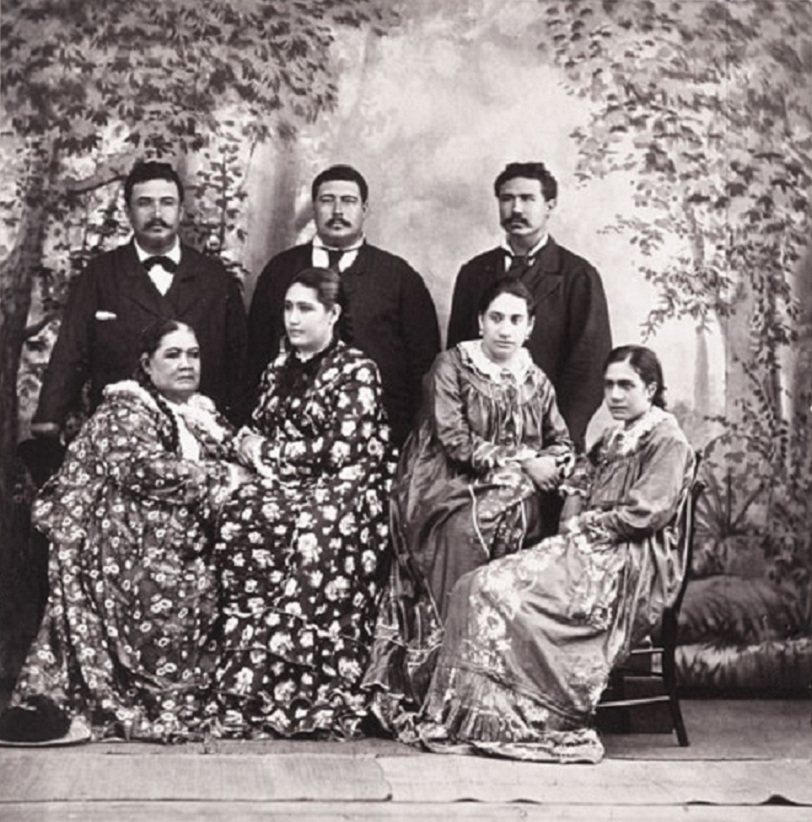 The Salmon Family of Tahiti. Top left to right: Tati, Ariipaea, and Narii Salmon.[1] And bottom left to right: Arii Taimai, Moetia, Marau and Manihinihi.